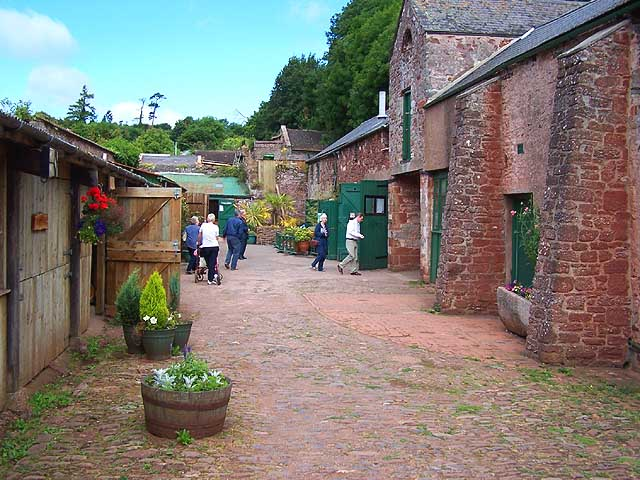 Cockington Court Craft Centre. The Craft Centre at Cockington Court has been in existence since 1995 and has proved an additional attraction to visitors to the village. There are a number of workshops in the yard behind Cockington Court as well as within the rooms in the building.